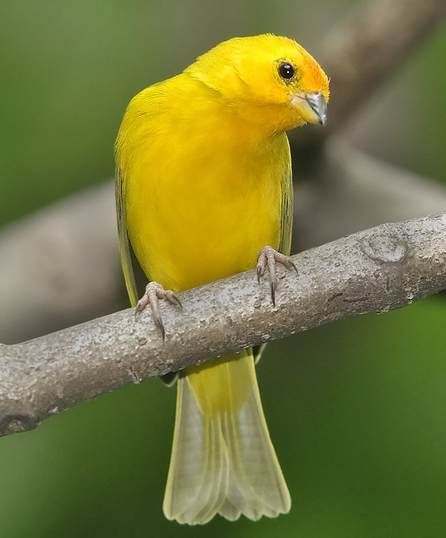 Saffron Finch